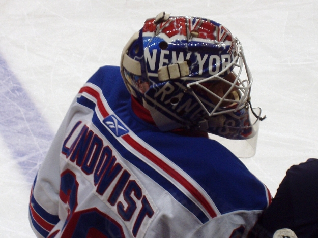 Henrik Lundqvist during pre-game warmup vs the Los Angeles Kings @ Staples Center. 12/17/08